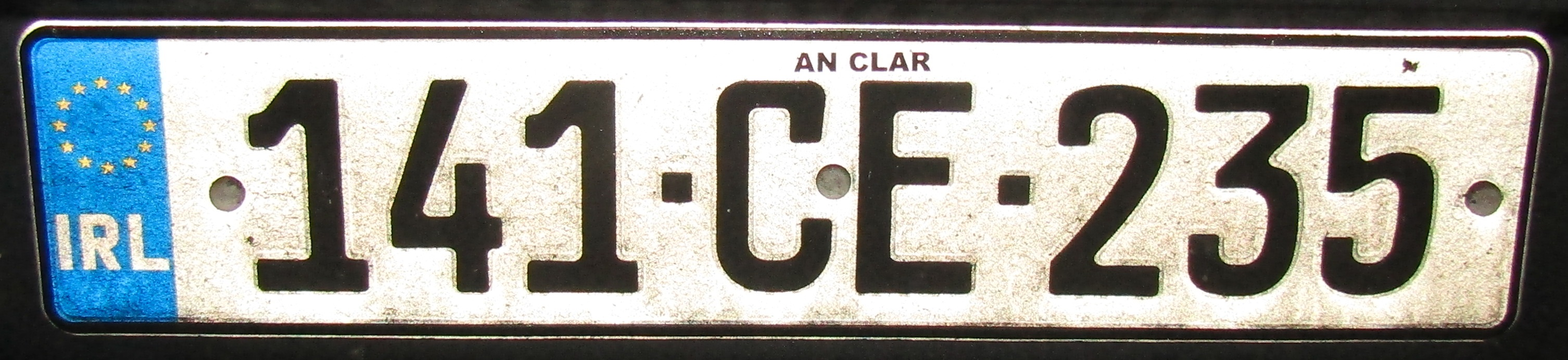 Irish non-standard truck license plate, seen in Vorarlberg, Austria